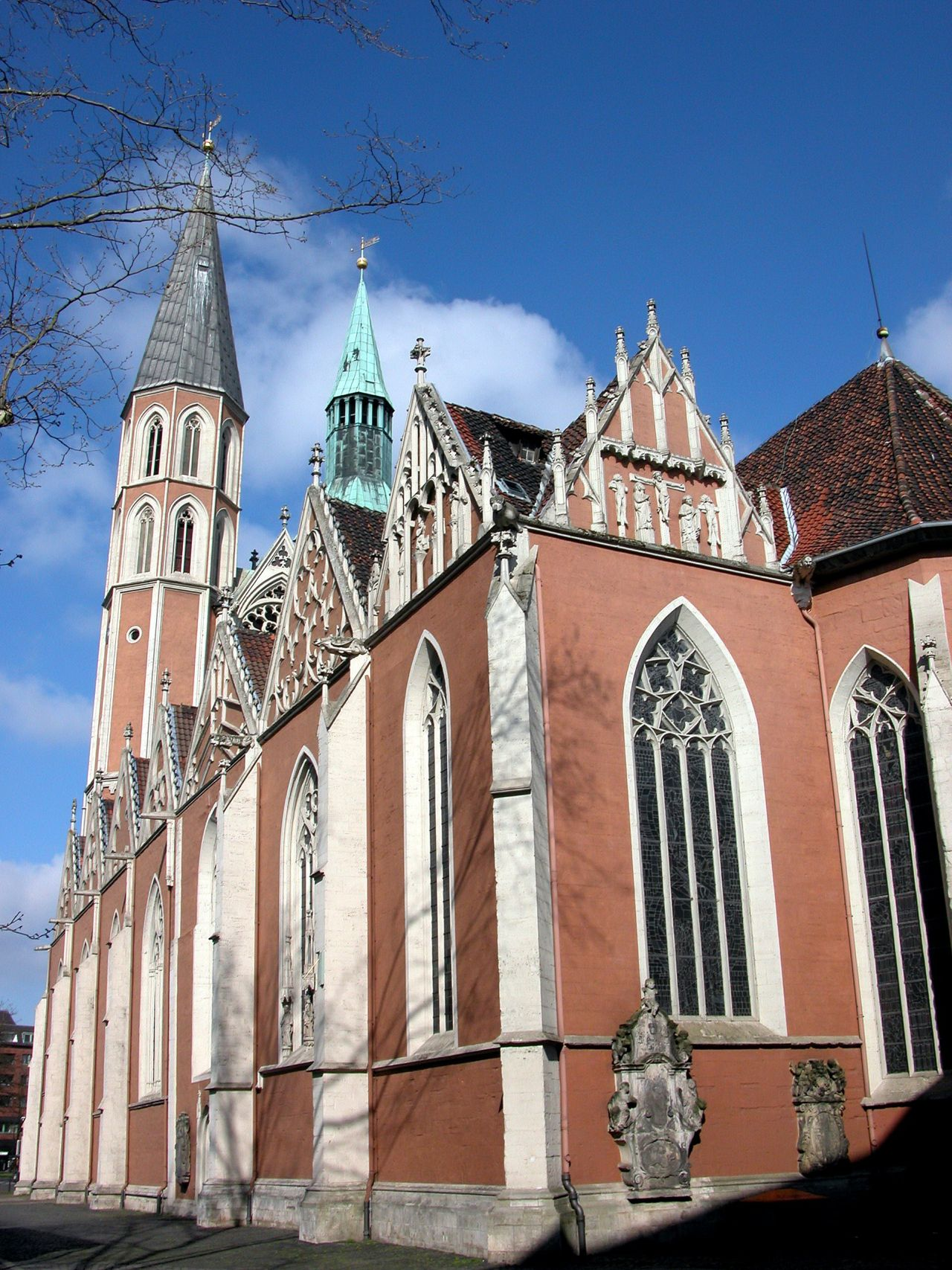 Brunswick, Germany: St. Catherine’s as seen from southeast.